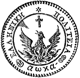 reverse of a Greek phoenix coin, bearing the national emblem of Greece, ca. 1830. The words read: "Hellenic State" and the date "1821", referring to the outbreak of the Greek Revolution.